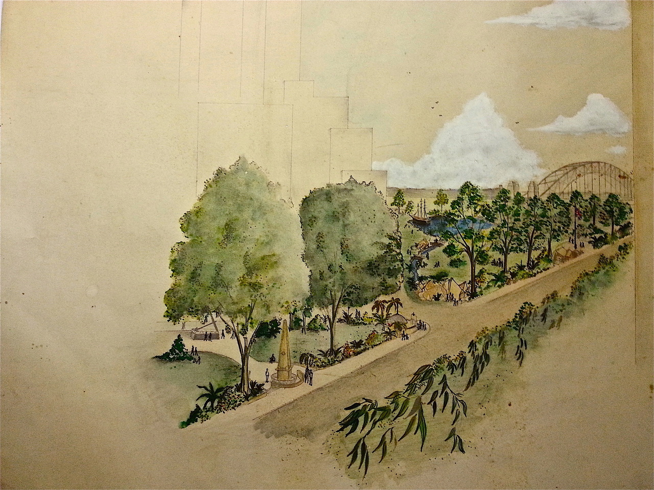 Watercolour Rendering of the Quayhole Committee proposal for a Memorial Park in commemoration of the founding of Australia on the 26th of January 1788. 1981 Major submission to Sydney City Council by the Quayhole Committee (Paul Johnson and Tony Rodi). Rendered drawing by Tony Rodi. The Quayhole Committee, described by Jack Mundey, as visionary architects, also proposed that the original landing site of The First Fleet be the location for a ceremony enacting a treaty by the Australian Government with the Aboriginal people,the original owners of the land.